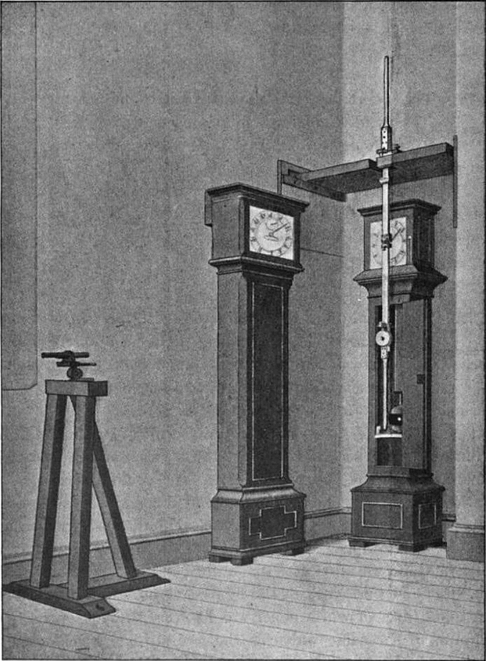 Drawing of the use of a Kater's pendulum, a reversible freeswinging pendulum invented in 1817 by British captain Henry Kater as a gravimeter instrument to measure the local acceleration of gravity. The image shows Kater's original pendulum, and is probably from Kater's original 1818 paper. The pendulum had two opposing pivots near either end of the rod, consisting of short knife blades, so it could be hung from either end, with the knife blades resting on agate plates. As shown, the pendulum was swung in front of a precision pendulum clock that had been adjusted to keep correct time by the passage of stars overhead. The precise times when the two pendulums swung in synchronism were determined by looking through the sight on the left, to eliminate parallax error. The adjustment weight on the rod was adjusted until the pendulum had the same period of swing when hung from either pivot. From this period and the distance between the pivots the strength of gravity could be calculated precisely. Alterations to image: removed frame, converted to 32 greyscale PNG.